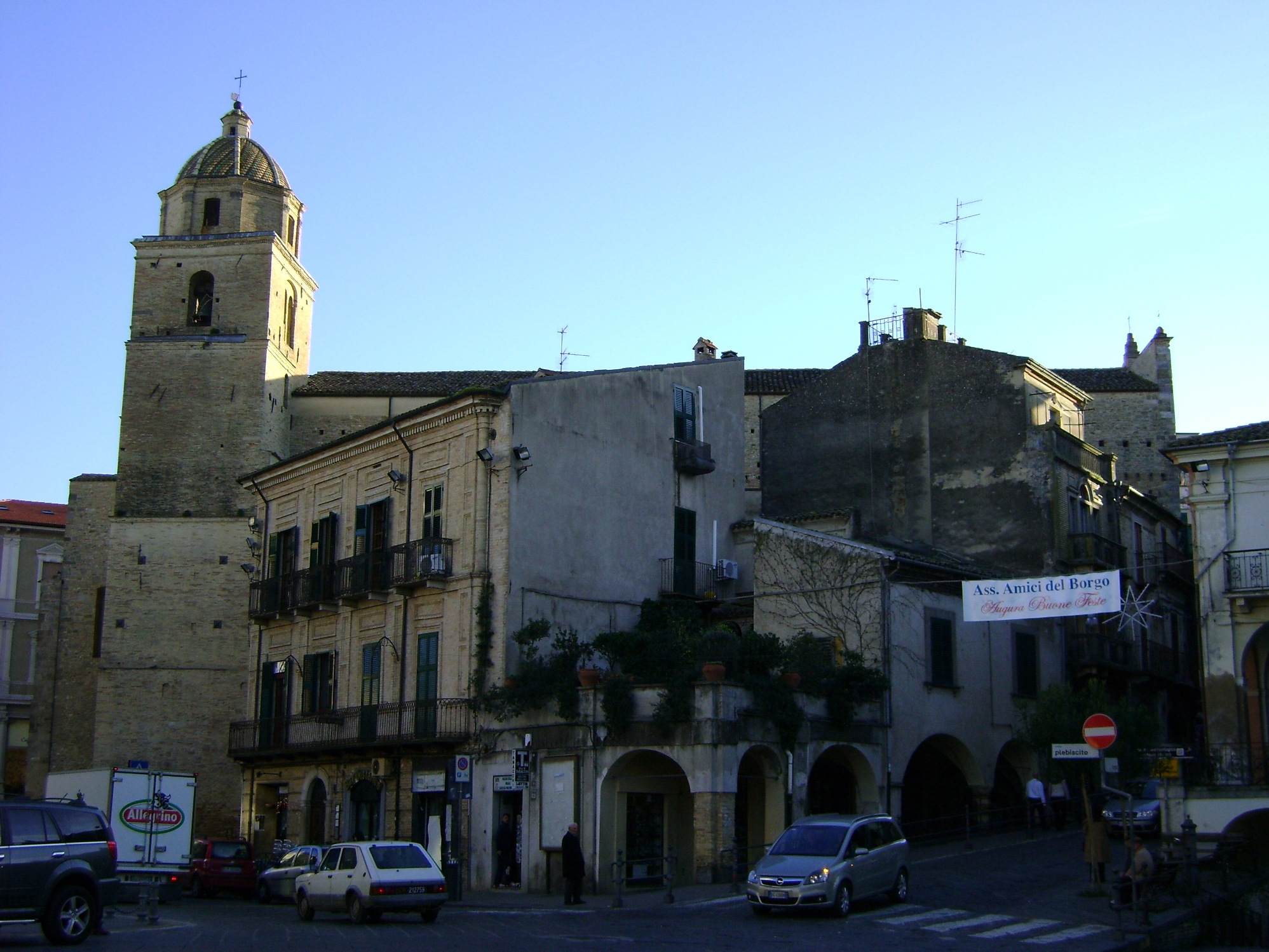 The church of St. Francis in Lanciano, province of Chieti, Abruzzo